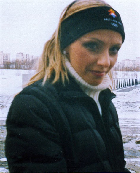 Tatiana Navka giving an autograph at the Grand Prix Final 2003/04